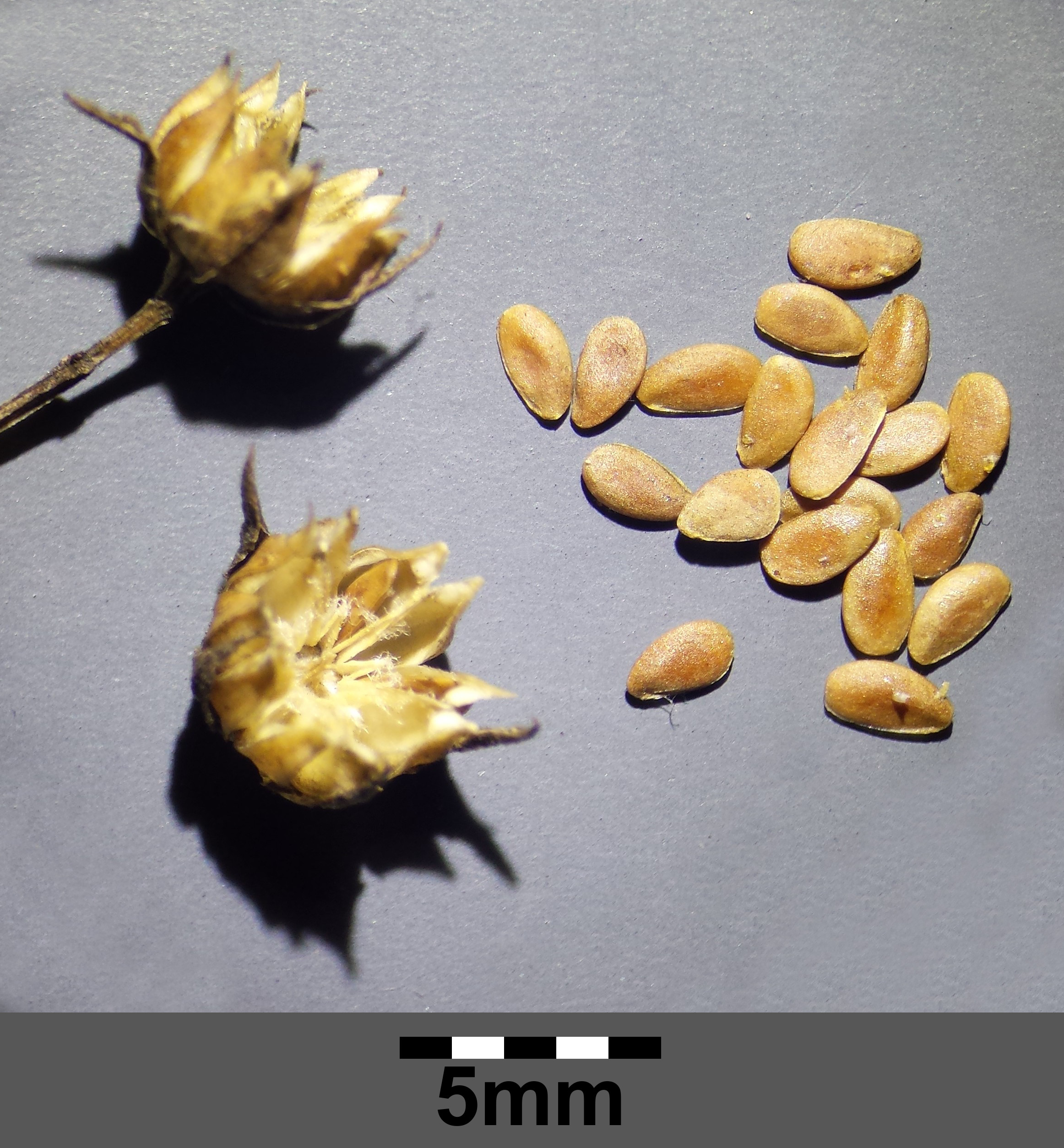 Fruit with seeds (leg. 2015-09-13) Taxonym: Linum flavum ss Fischer et al. EfÖLS 2008 ISBN 978-3-85474-187-9 Location: Steinbacher Heide, Leiser Berge, district Korneuburg, Lower Austria - ca. 450 m a.s.l. Habitat: poor grassland